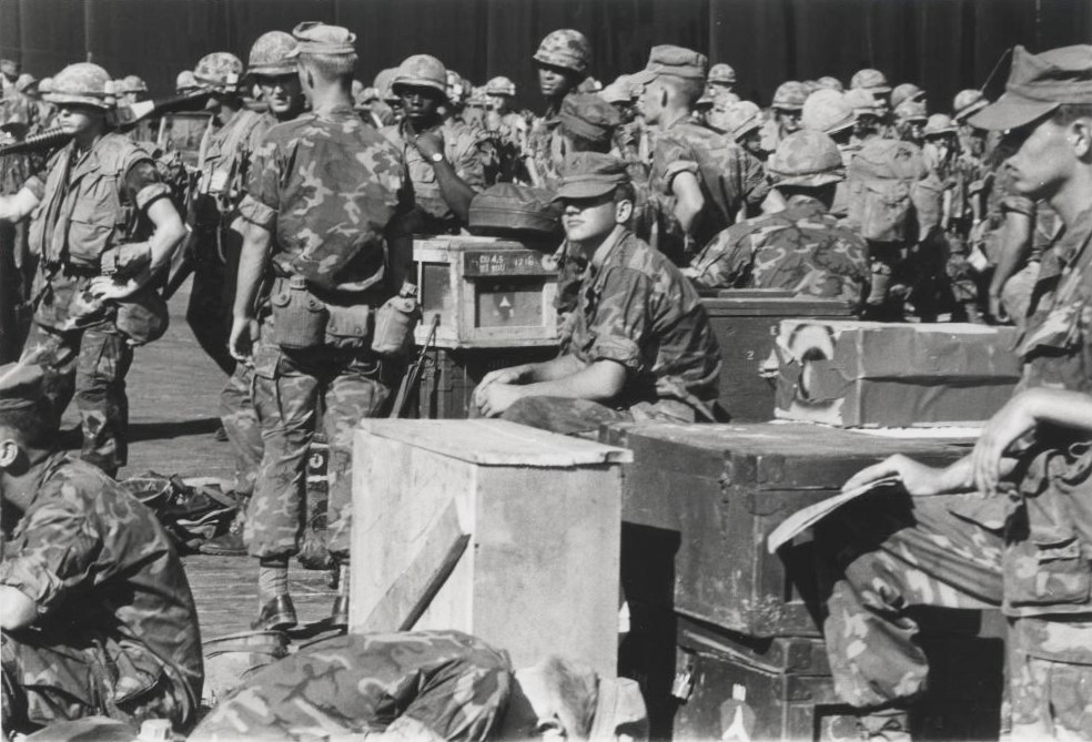 2/9 Marines wait to board USS Paul Revere at Da Nang